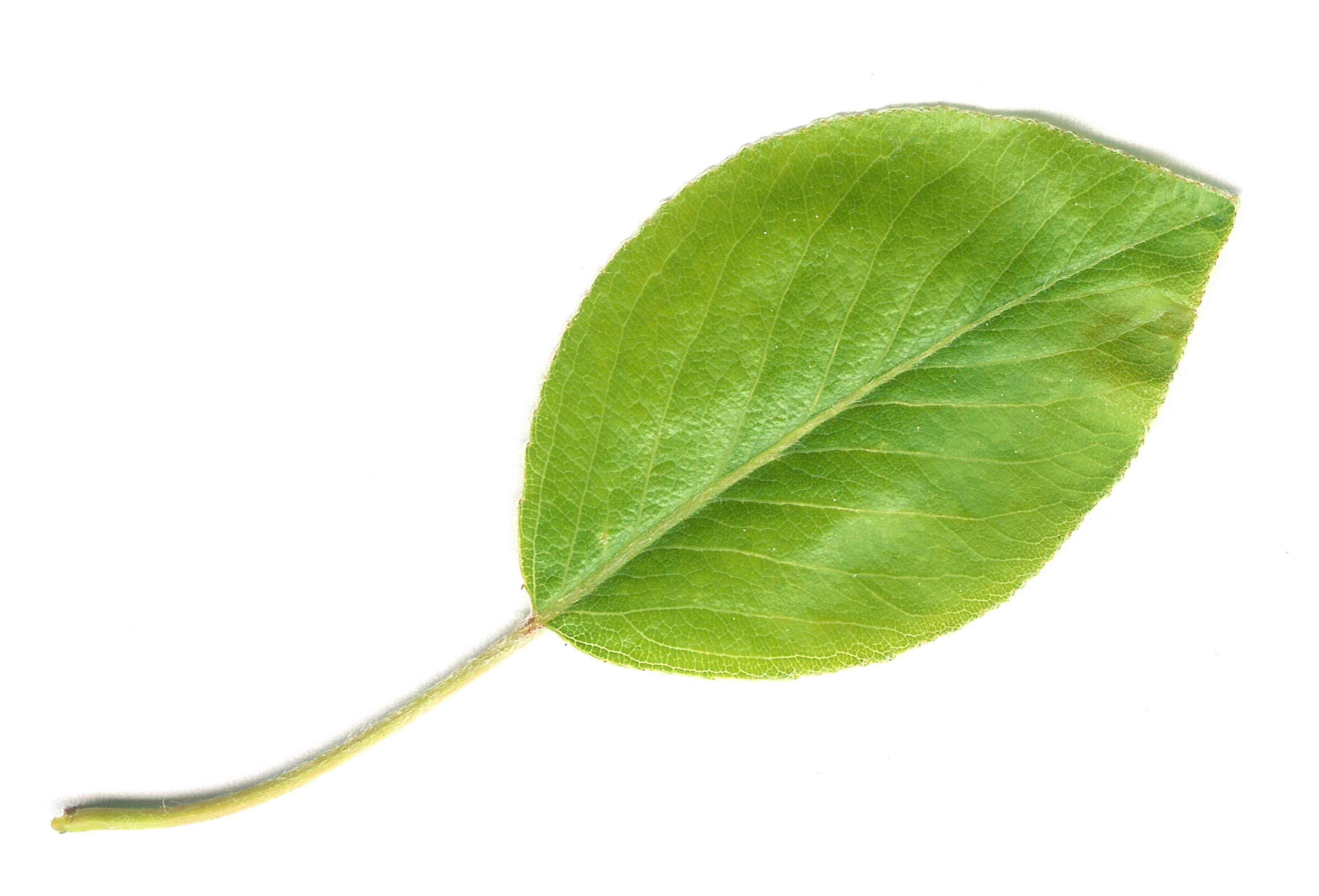 Young leaf of a pear tree, created by myself in spring 2005, GNU-FDL --Rabe! 16:16, 9 July 2006 (UTC)